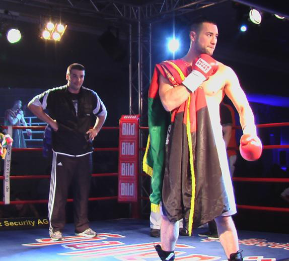 Balu Sauer - boxer (as trainer, left)